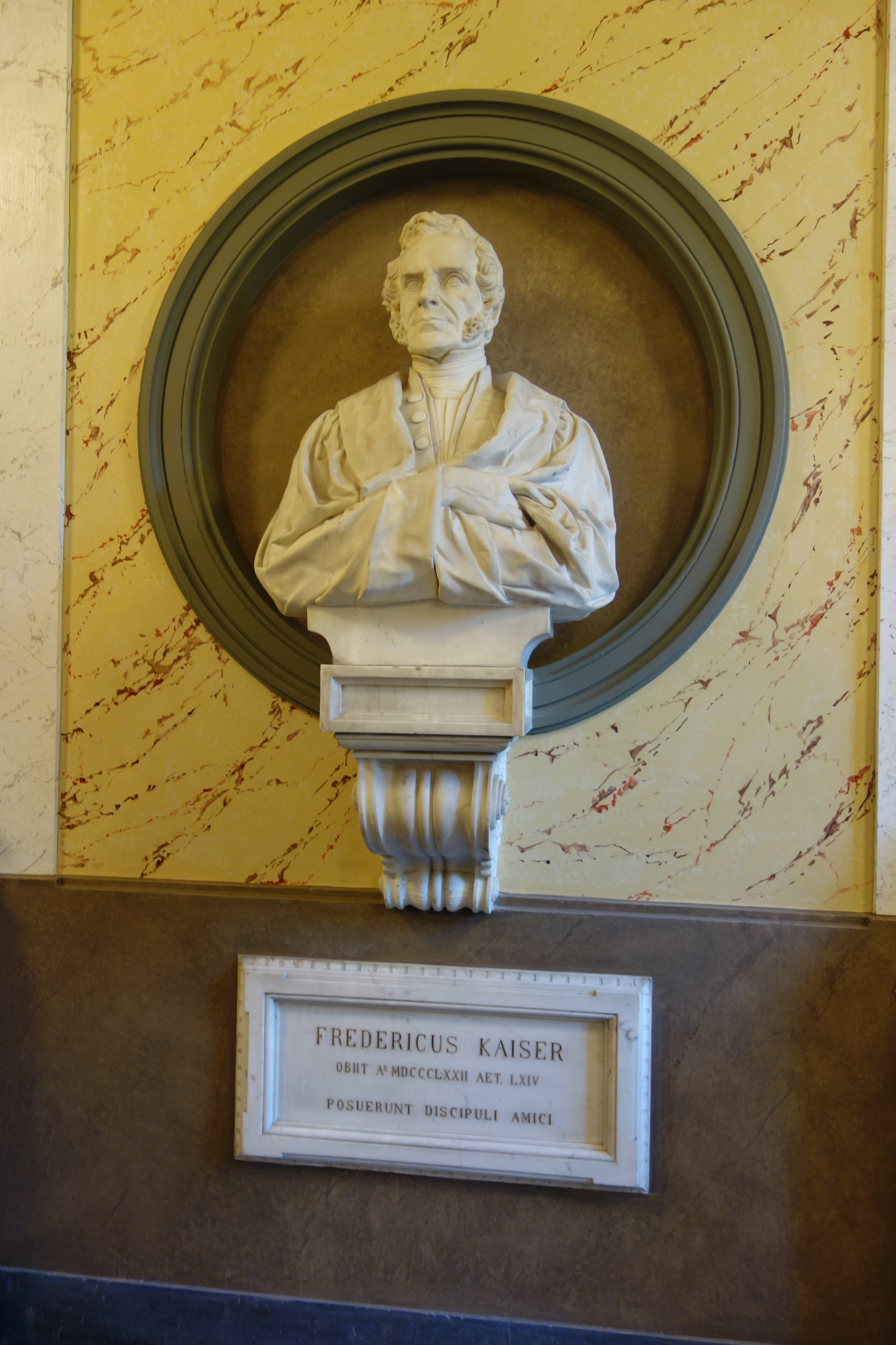 Bust of Frederik Kaiser, Sterrewacht Leiden (the Netherlands)